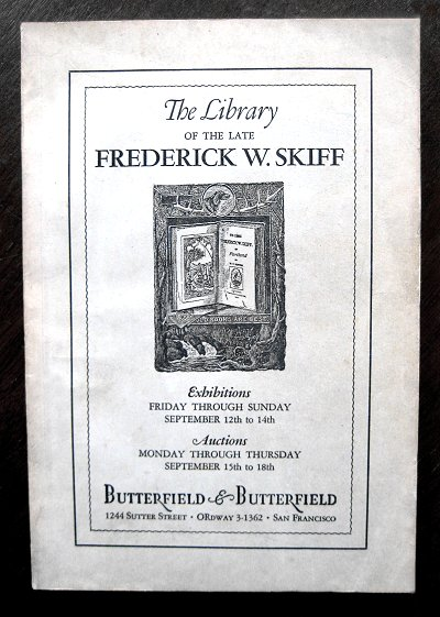 Cover of the 1947 Butterfield & Butterfield auction catalog of the Frederick W. Skiff Library. Own photograph, taken in 1999.